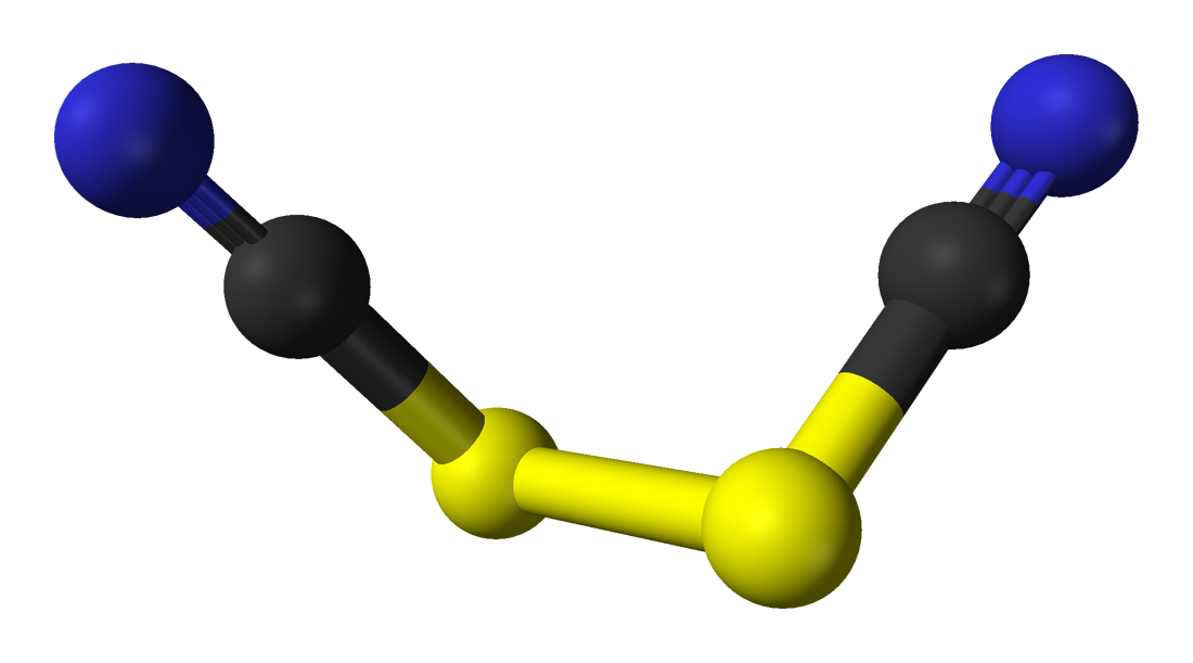 Ball-and-stick model of thiocyanogen